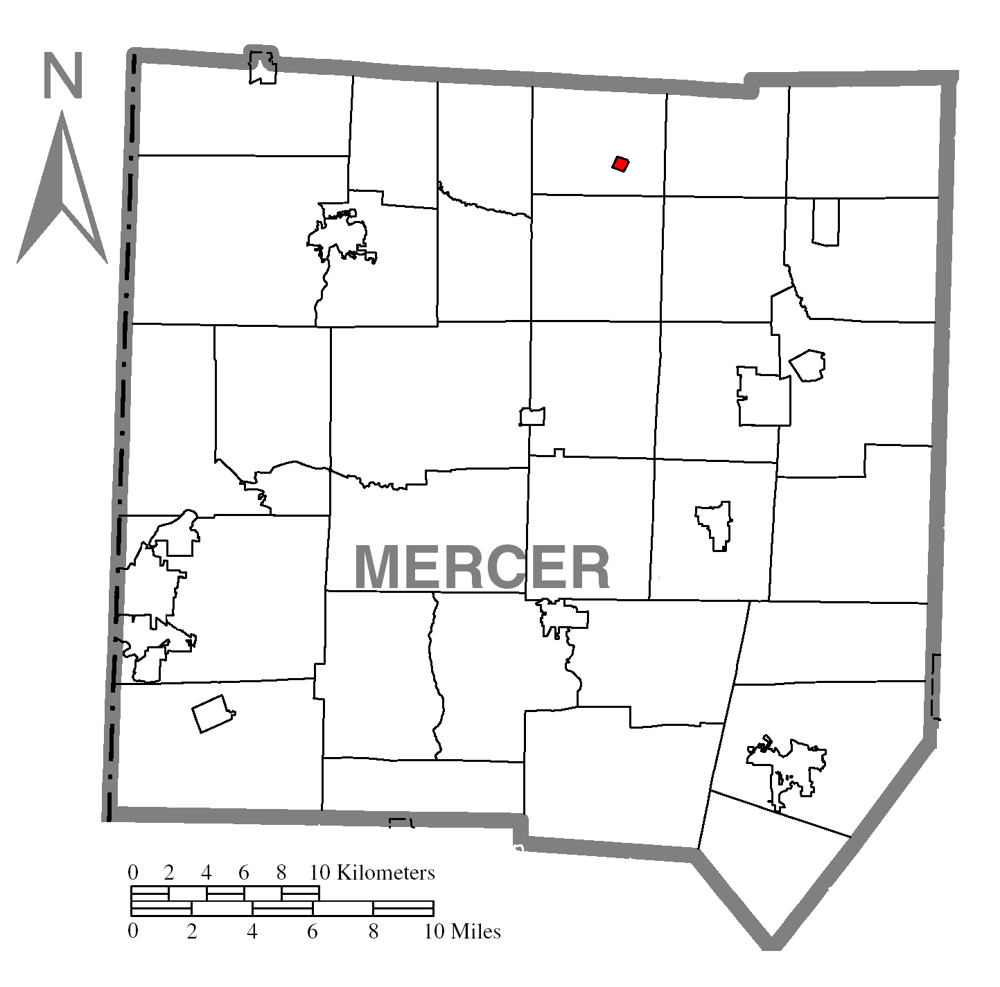 Map of Mercer County higlighting Sheakleyville.